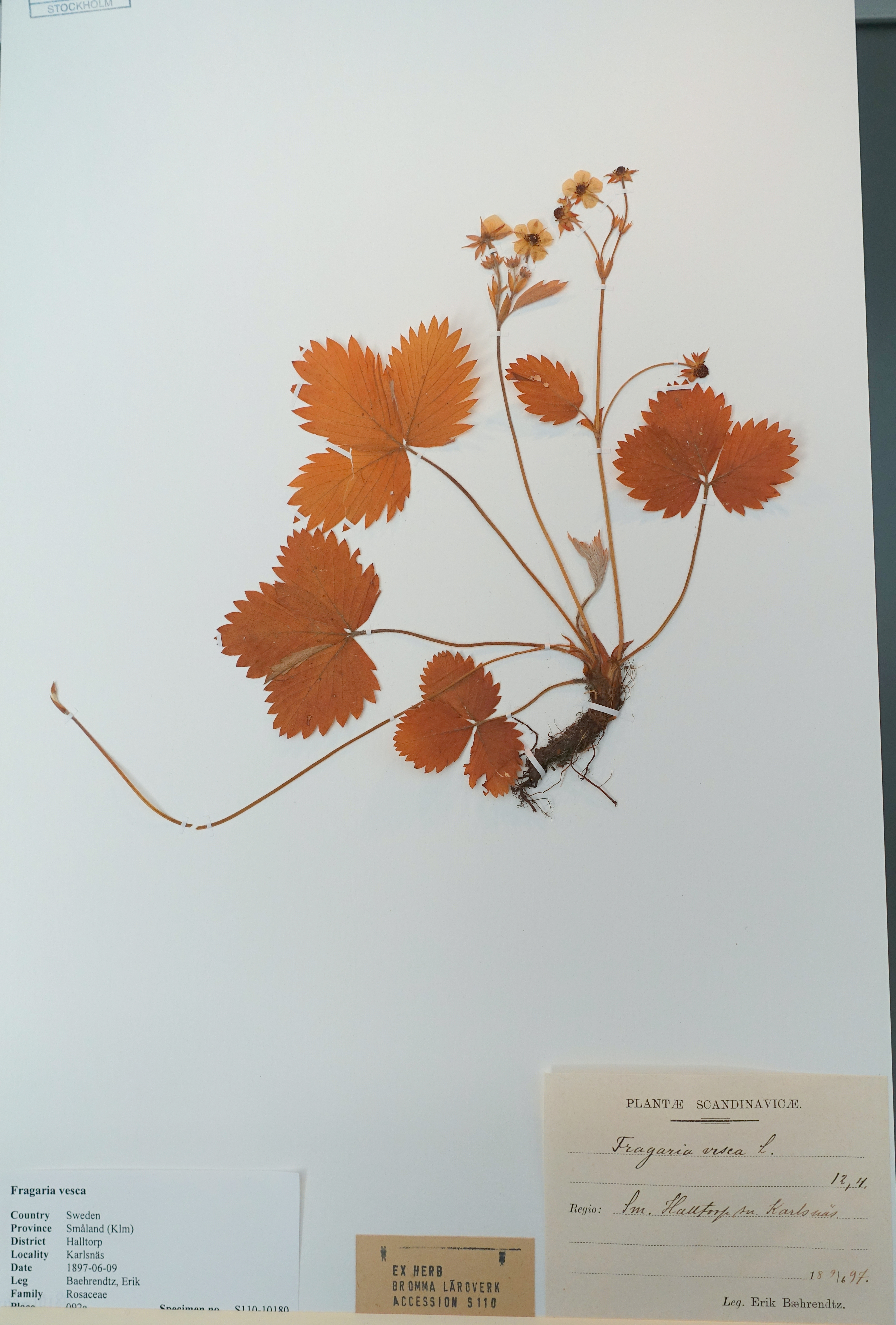 Exhibit in the Swedish Museum of Natural History - Stockholm, Sweden.